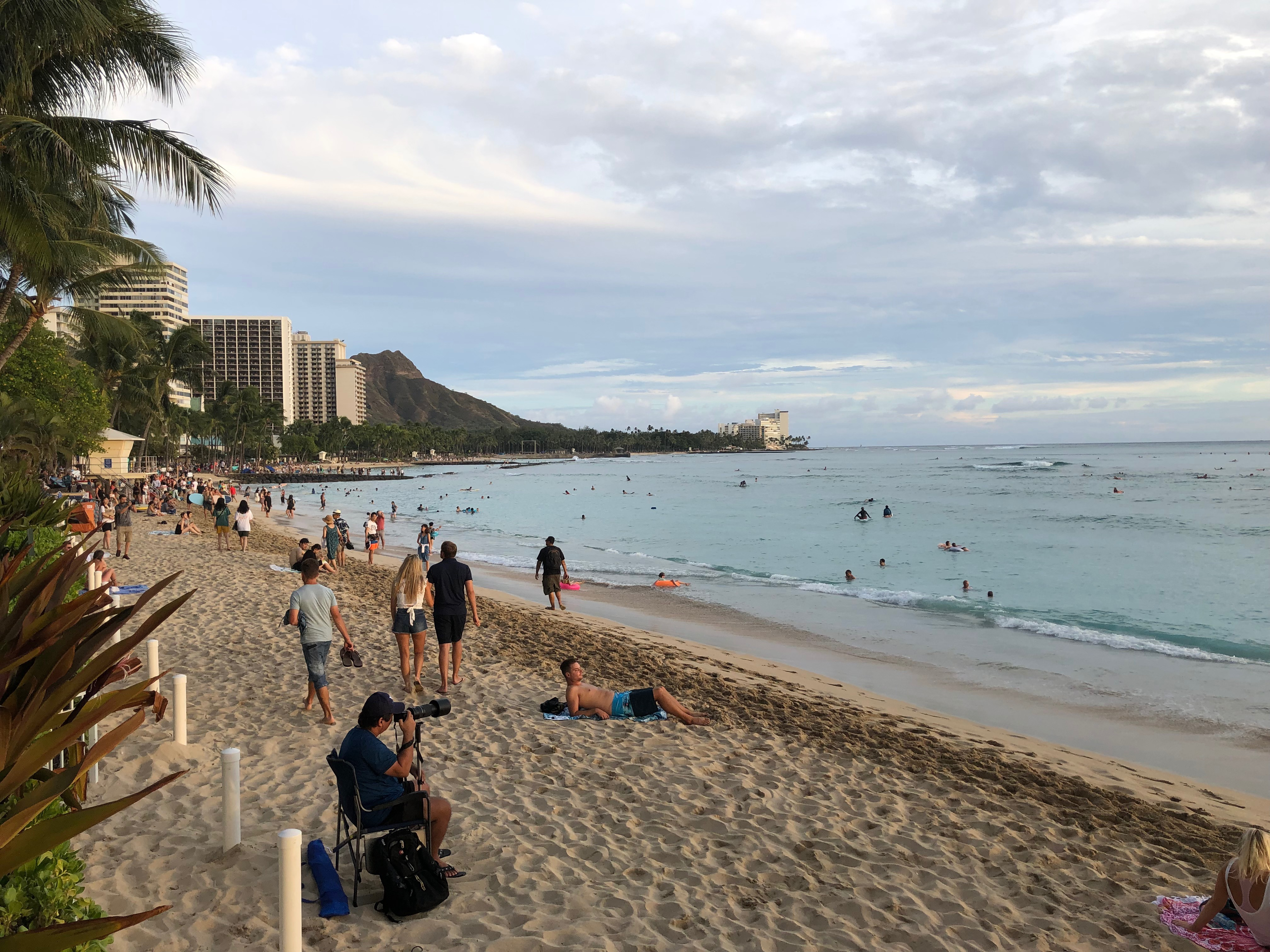 Waikiki Beach 2